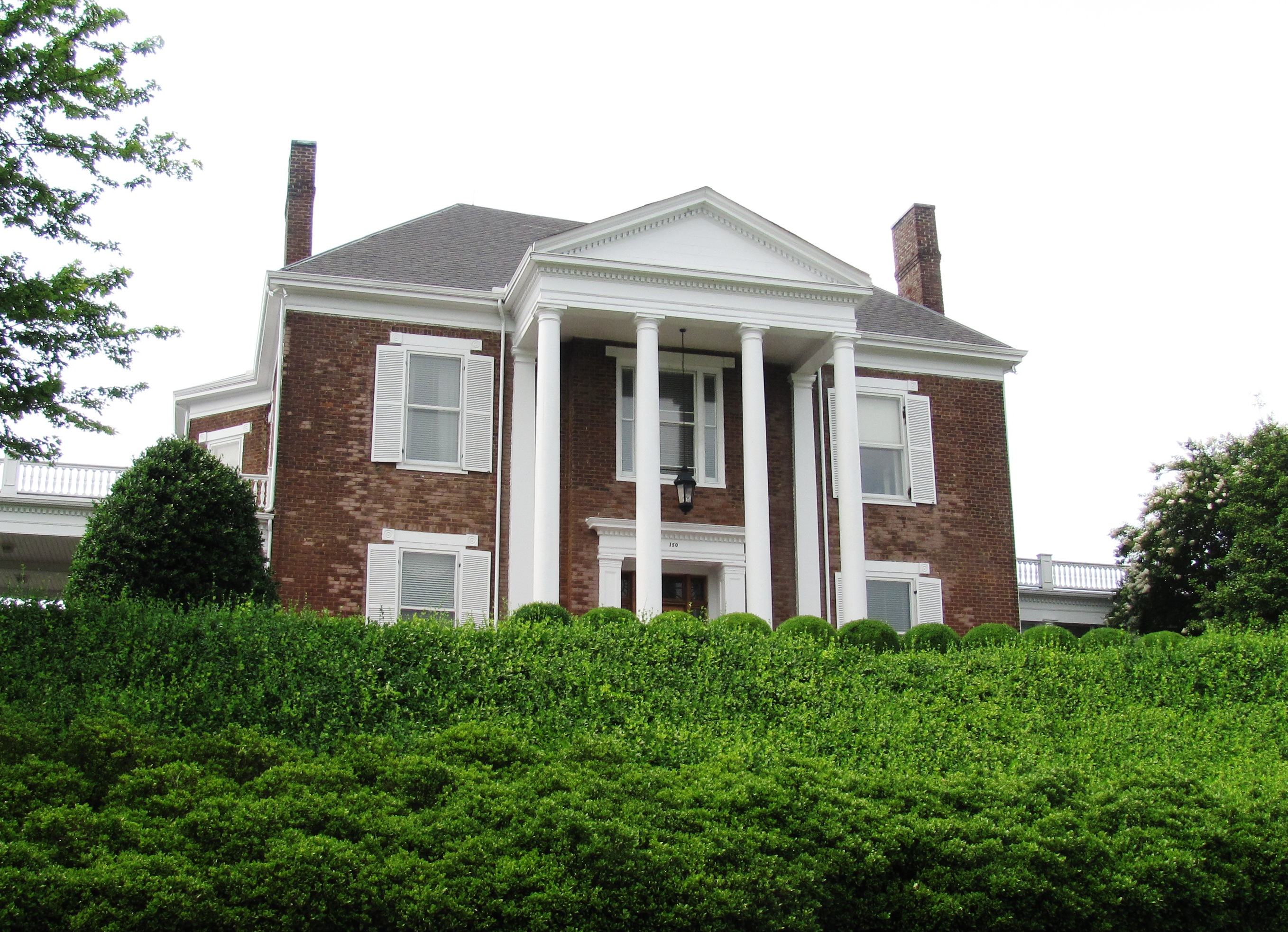 Knollwood (6411 Kingston Pike/150 Major Reynolds Place) in Knoxville, Tennessee, USA. Built in 1851 by Major Robert Reynolds and his sister, Rebecca, the house is now home to the Schaad Companies, and is listed on the National Register of Historic Places.